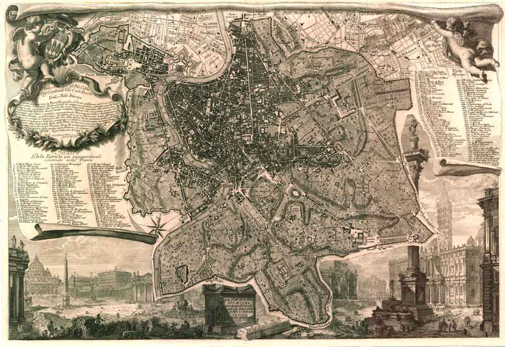 Nolli map, 1748, signed "Piranesi e nolli incisero". This is a scaled down version of La Pianta Grande di Roma, published in the same year.